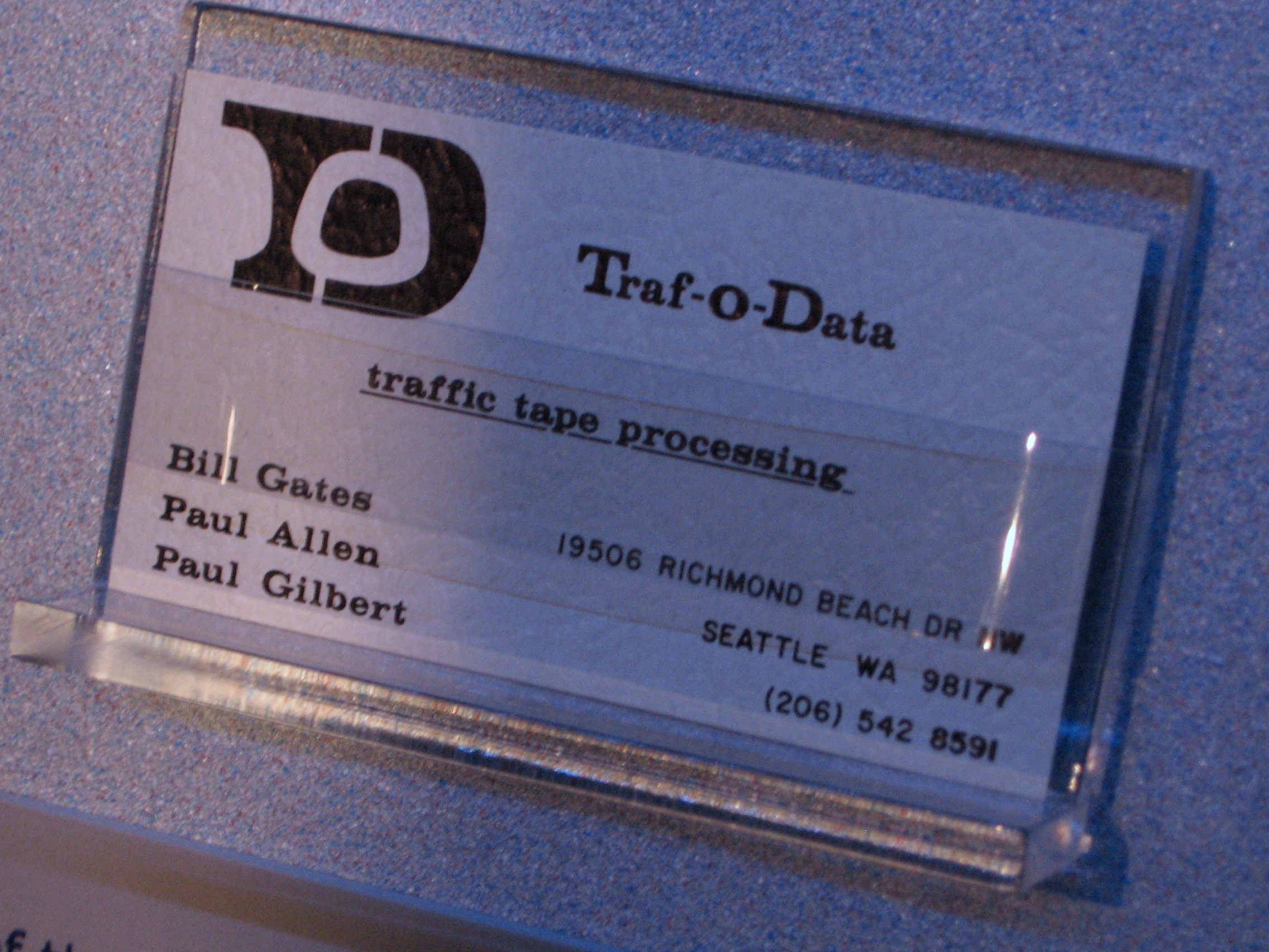 One design shared between Bill Gates, Paul Allen and Paul Gilbert. Link to the Google Maps map of the address on the card